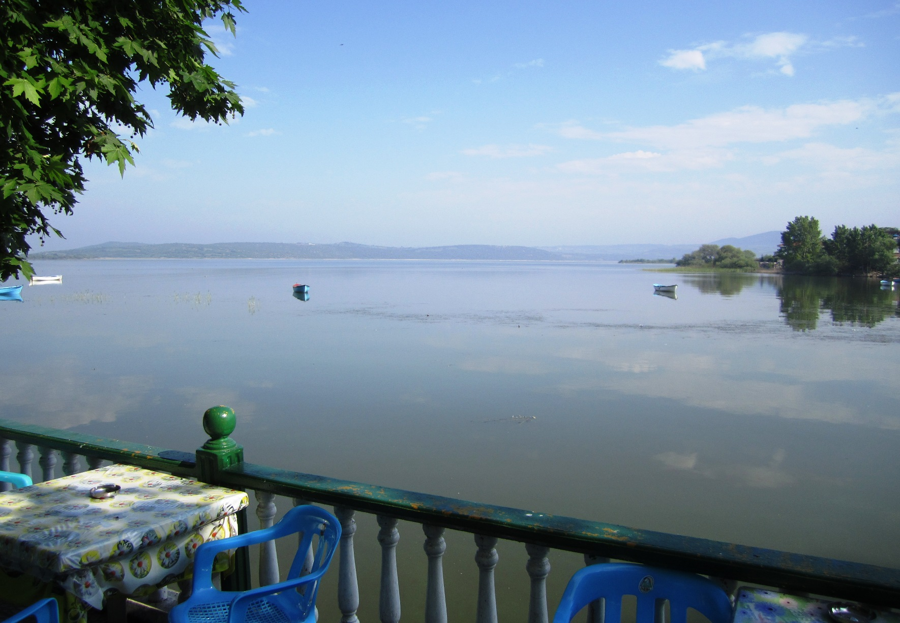 View on Ulubat Lake